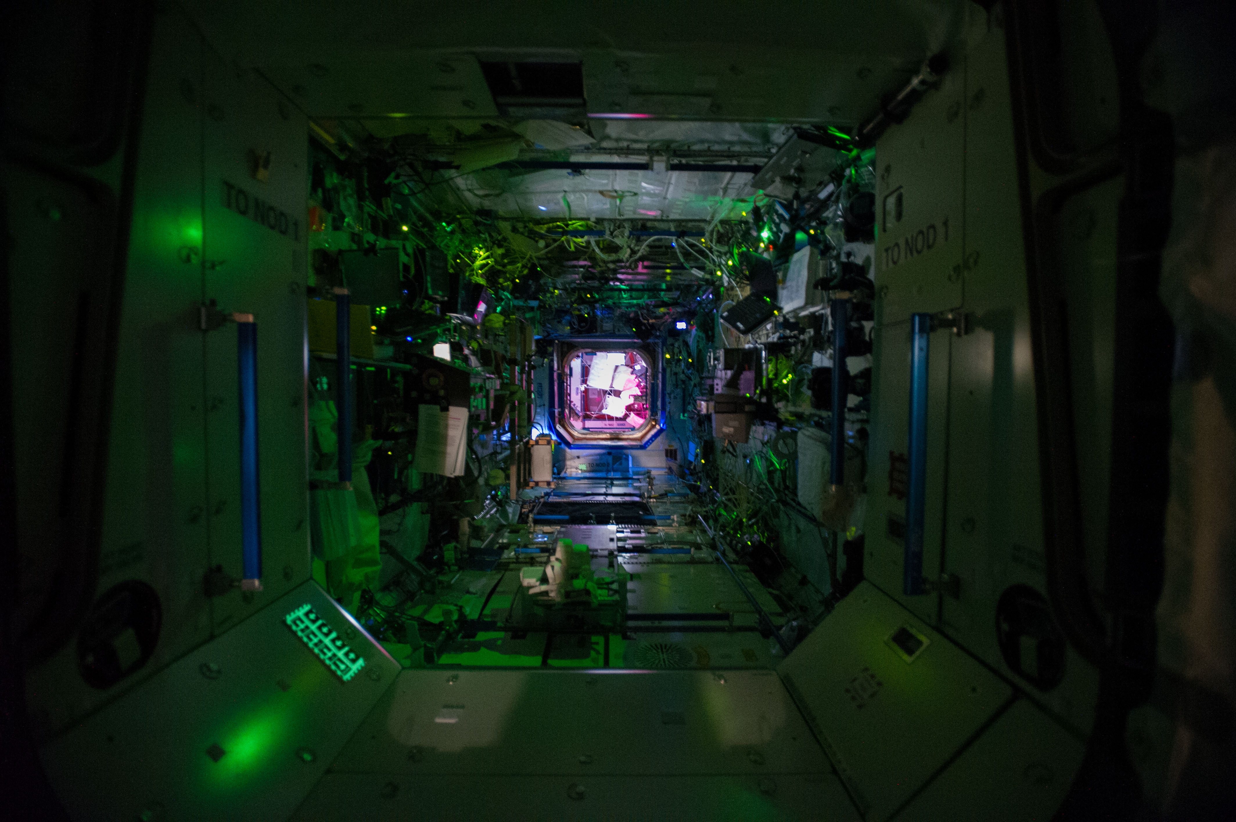 This view in the International Space Station, photographed by an Expedition 40 crew member, shows how it looks inside the space station while the crew is asleep. The dots near the hatch point to a Soyuz spacecraft docked to the station in case the crew was to encounter an emergency. This view is looking into Destiny from Node 1 (Unity) with Node 2 (Harmony) in the background.